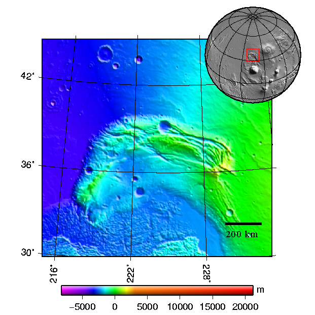 Topography map of Acheron Fossaea on Mars